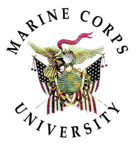 Marine Corps University logo URL: Source: Cover page of the U.S. Marine Corps University Catalog Academic Year 2006-2007, Training and Education Command, United States Marine Corps.